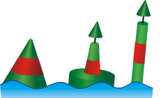 Lateral mark in IALA A for turn left, in IALA B the shape is the same, but the colors are in inverse order